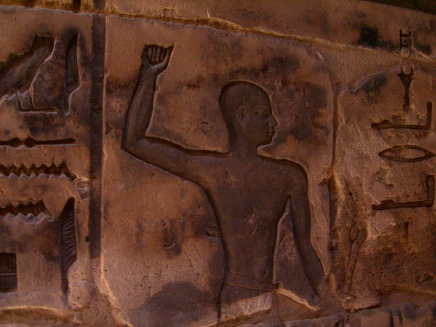 Amerirdis I chapel, Medinet Habu